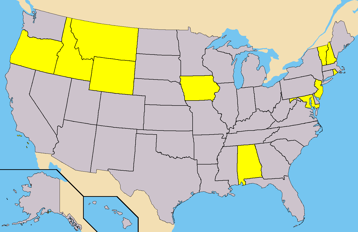 Ballot access of Terrance James O'Hara in the 2012 US Presidential Election